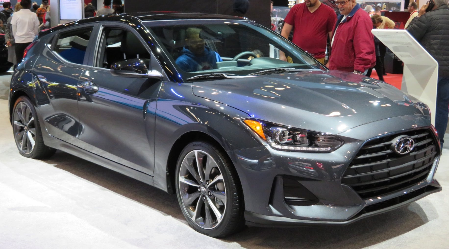 In New York International Auto Show, at Manhattan, New York, USA